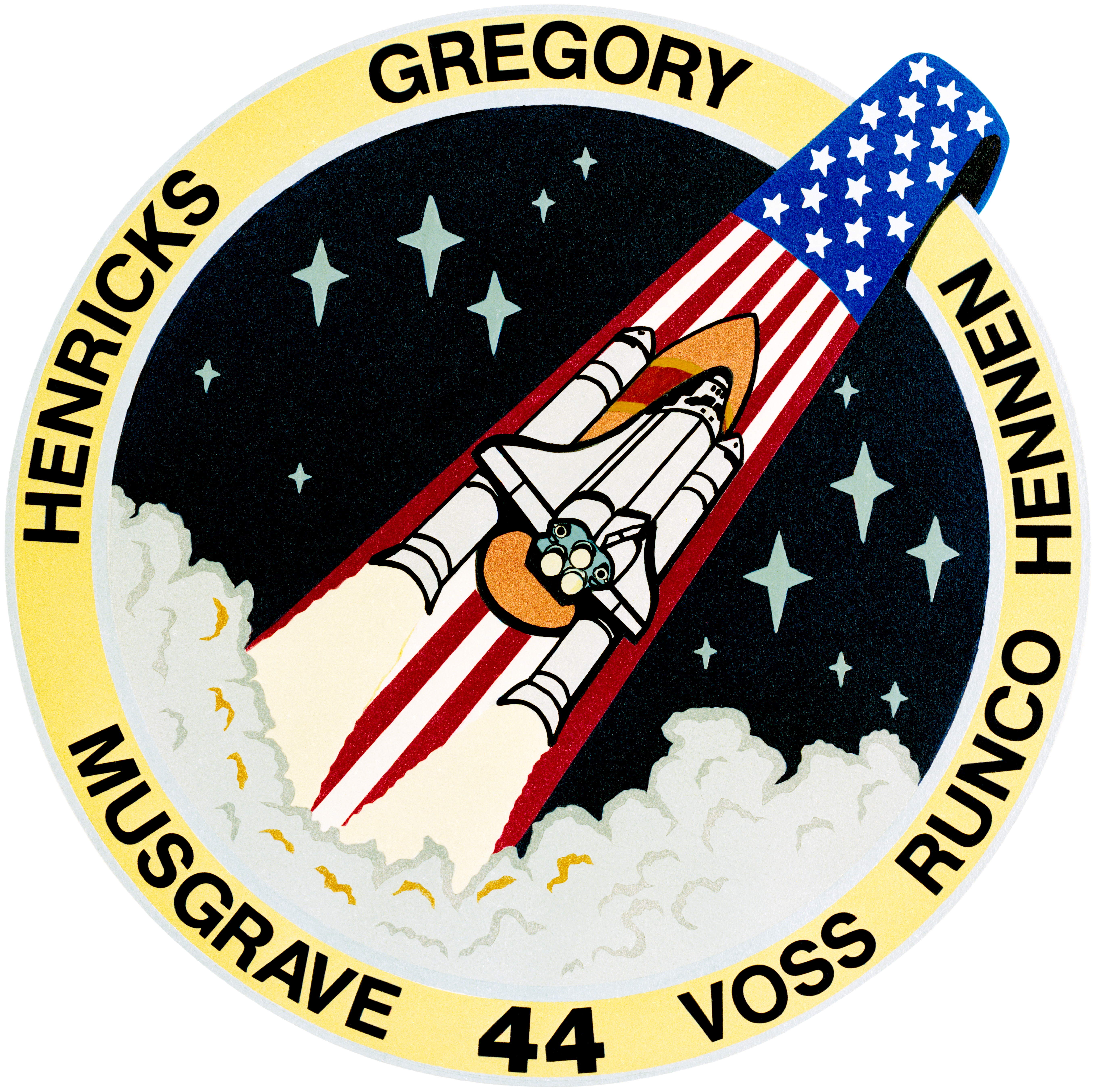 STS-44 Mission Insignia Designed by the participating crewmembers, the STS-44 patch shows the Space Shuttle Atlantis ascending to Earth orbit to expand mankind's knowledge. The patch illustrated by the symbolic red, white and blue of the American flag represents the American contribution and strength derived from this mission. The black background of space, indicative of the mysteries of the universe, is illuminated by six large stars, which depict the American crew of six and the hopes that travel with them. The smaller stars represent Americans who work in support of this mission. Within the Shuttle's payload bay is a Defense Support Program Satellite which will help ensure peace. In the words of a crew spokesman, the stars of the flag symbolize our leadership in an exciting quest of space and the boundless dreams for humanity's future.